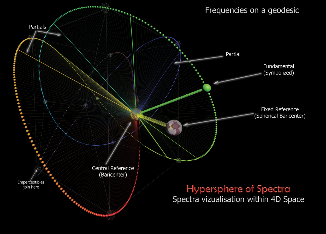 The Hypersphere of Spectra by Baroin, Gerando